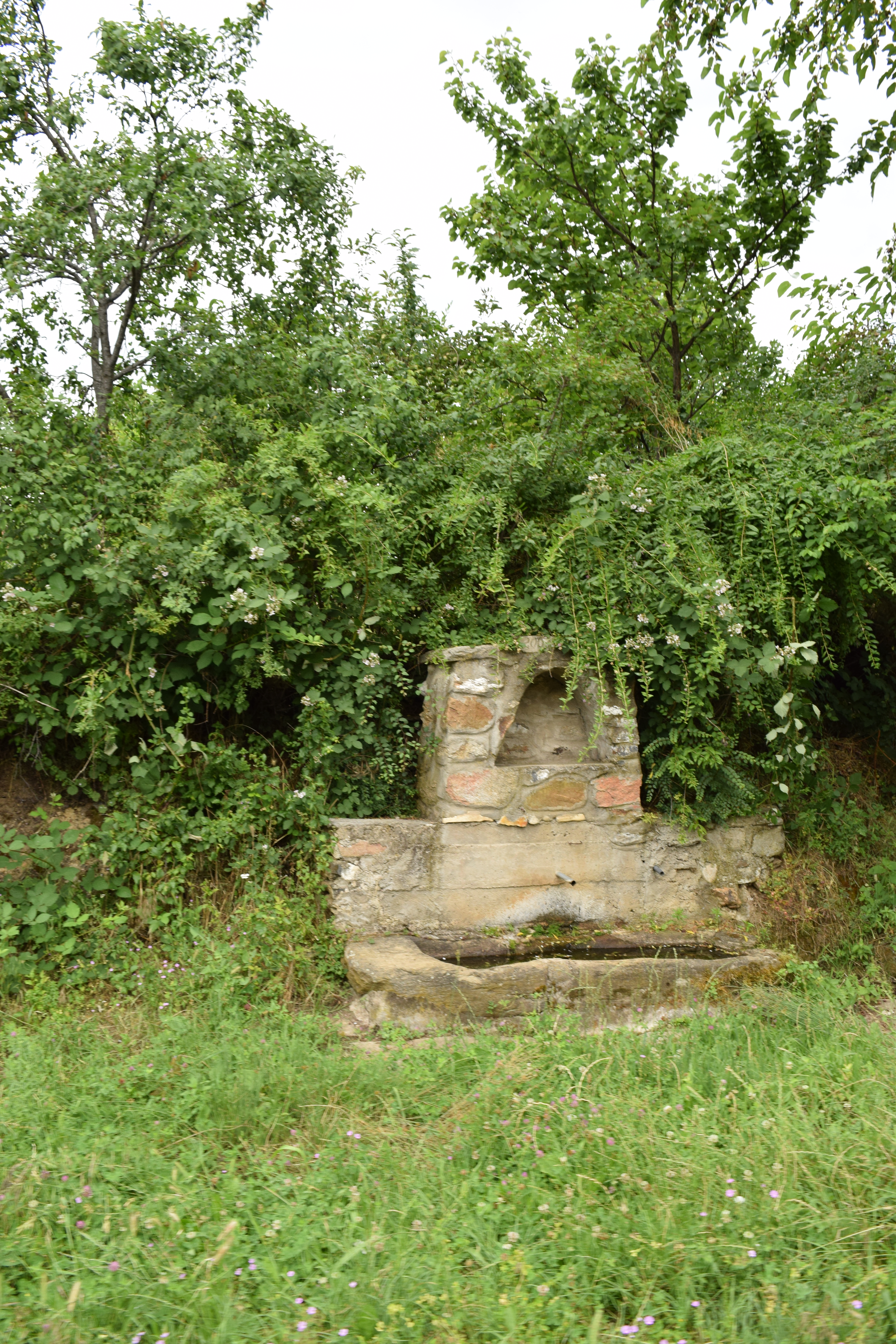 Village pump in Bistrica